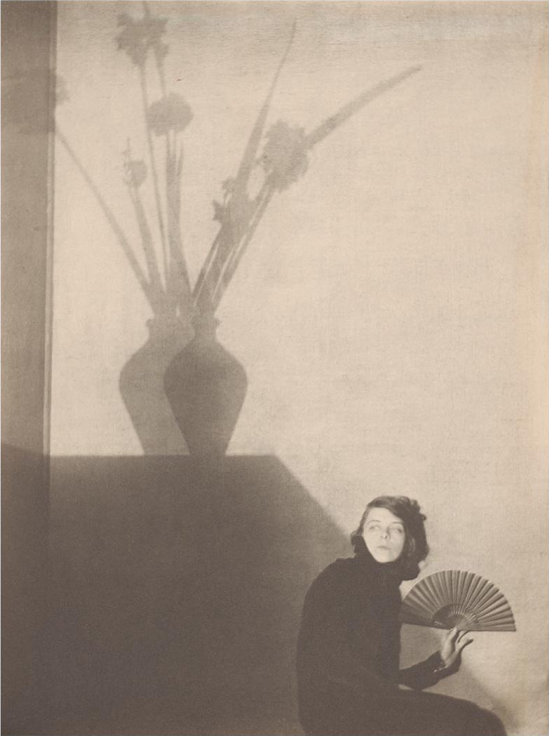 Epilogue. Featuring model Margrethe Mather holding a fan beneath a shadow of a bouquet in a vase.